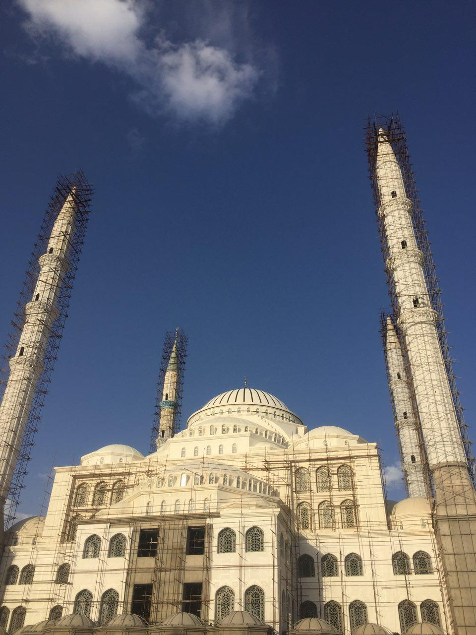 I took this photo in Zahedan around 7 months ago.